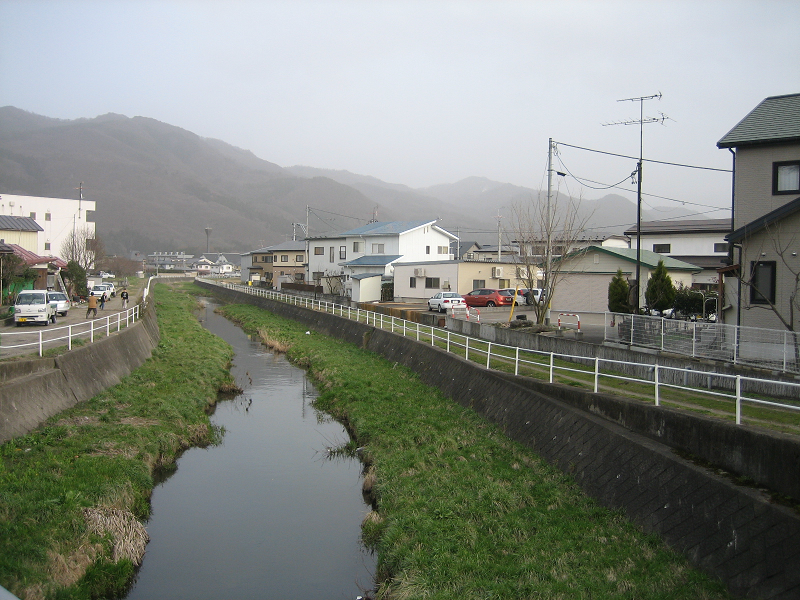 Asian Dust in Aizuwakamatsu, Japan. Photo was taken during the second day of the event. Image was taken with a Canon PowerShot SD450 Digital Elph camera. Image file extension was changed using a Paint Shop program on a laptop computer.